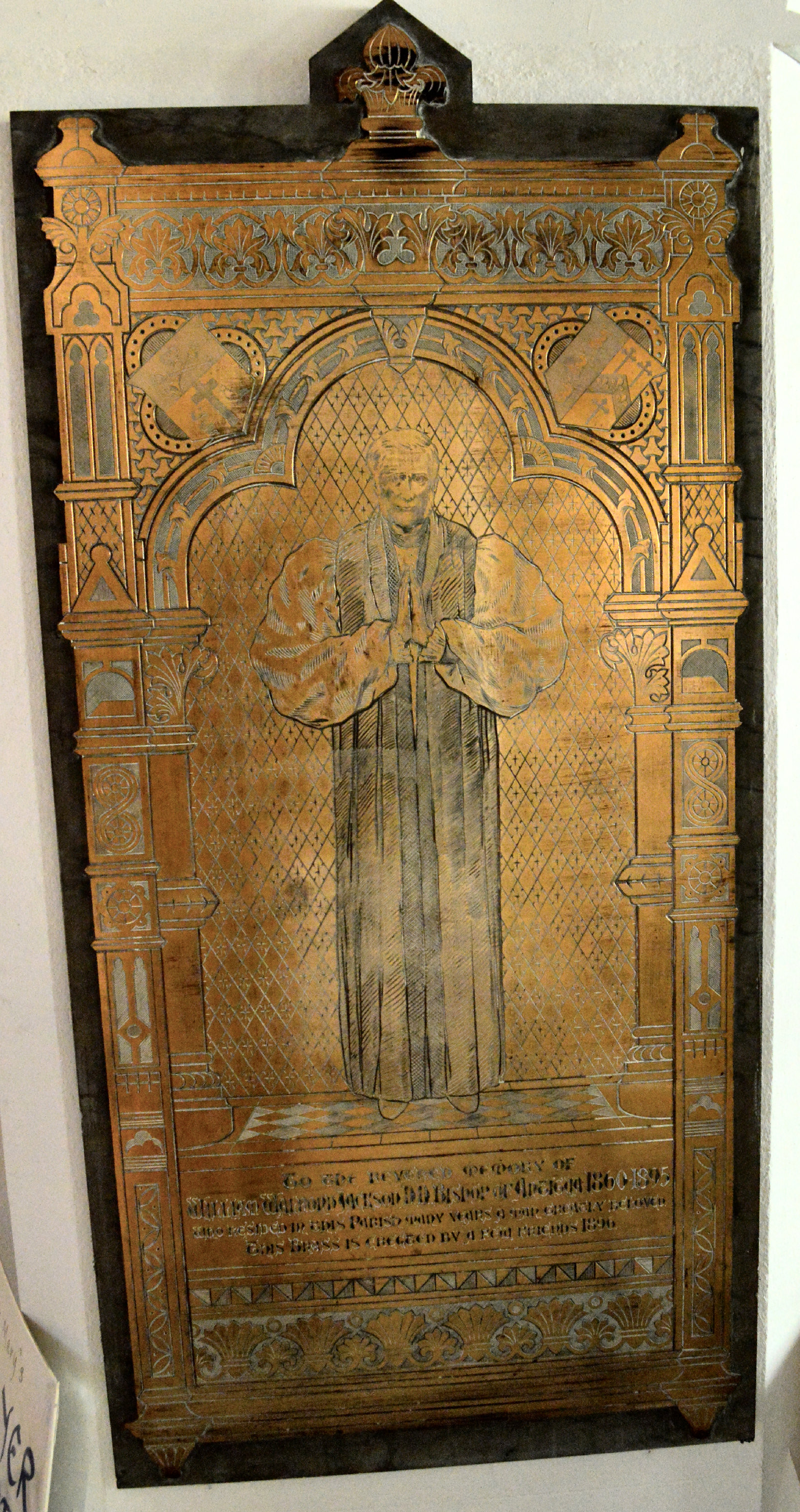 St Mary's Church, Ealing, modern brass to William Jackson, Bishop of Antigua (d 1896), who died in Ealing